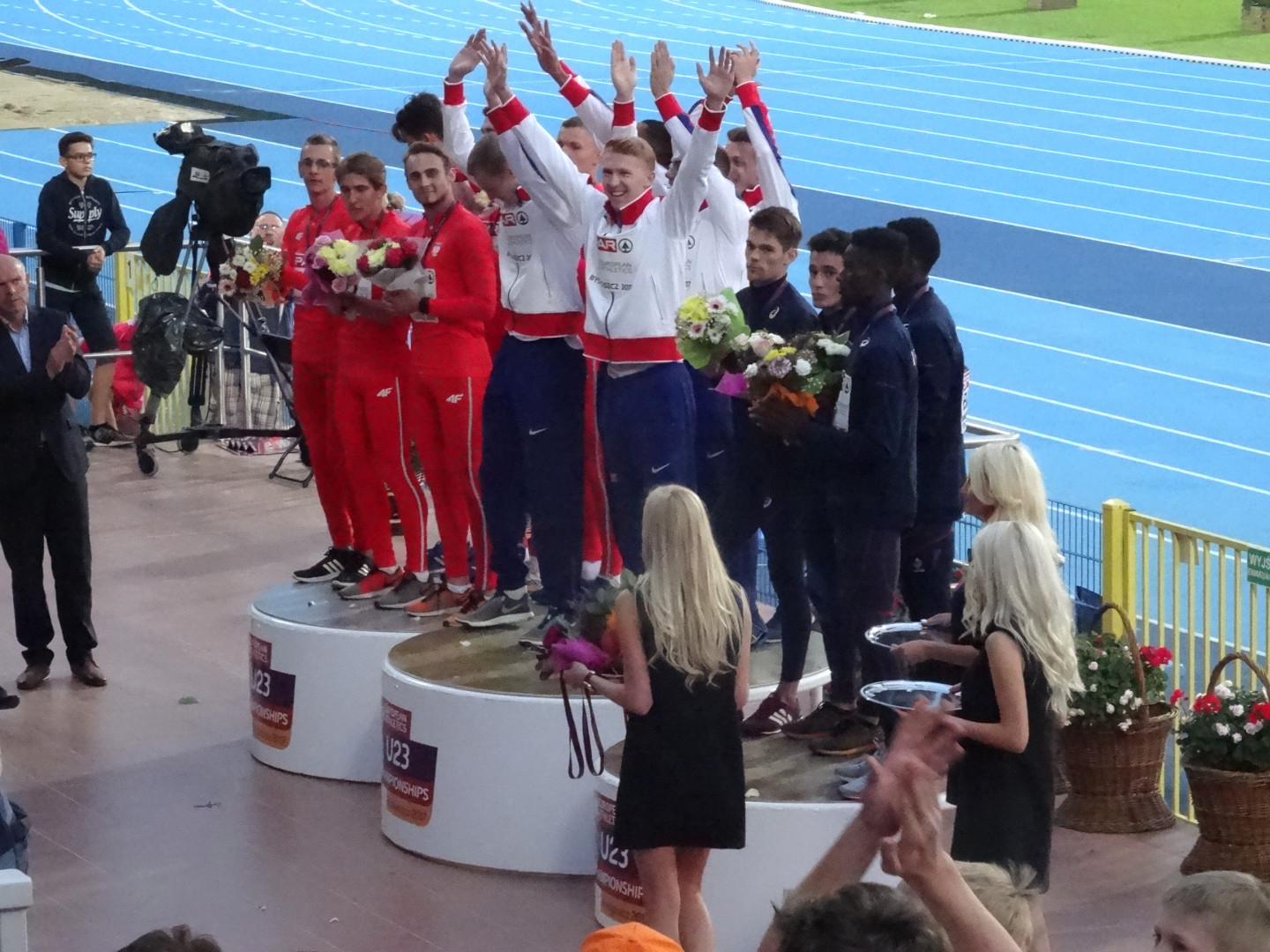 2017 European Athletics U23 Championships, 4x400m relay men medal ceremony